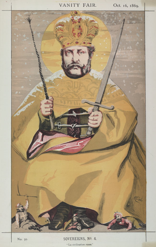 Sovereigns No.4: Caricature of Alexander II of Russia. Caption reads "La civilisation Russe".